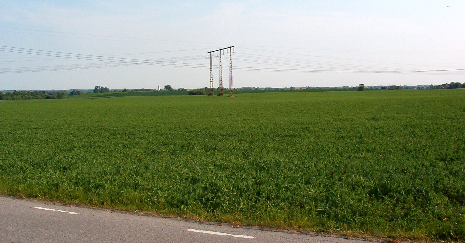 Image of the rural country side. Taken by me in the summer of 2003.